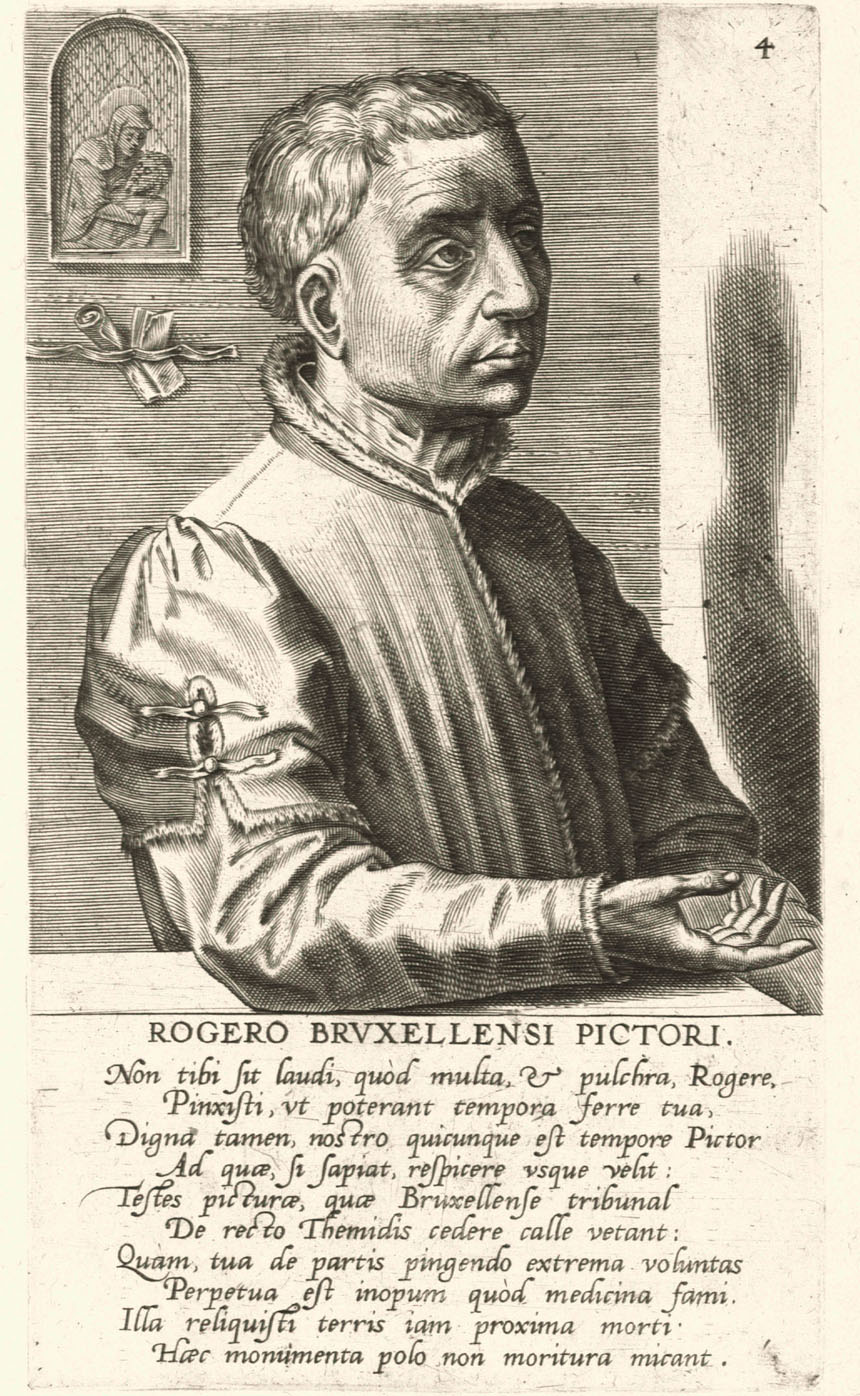 Portrait of Rogier van der Weyden attributed to Johannes (Jan) Wierix, engraving, 1572, from the Pictorum aliquot Germaniae Inferioris Effigies by Dominicus Lampsonius